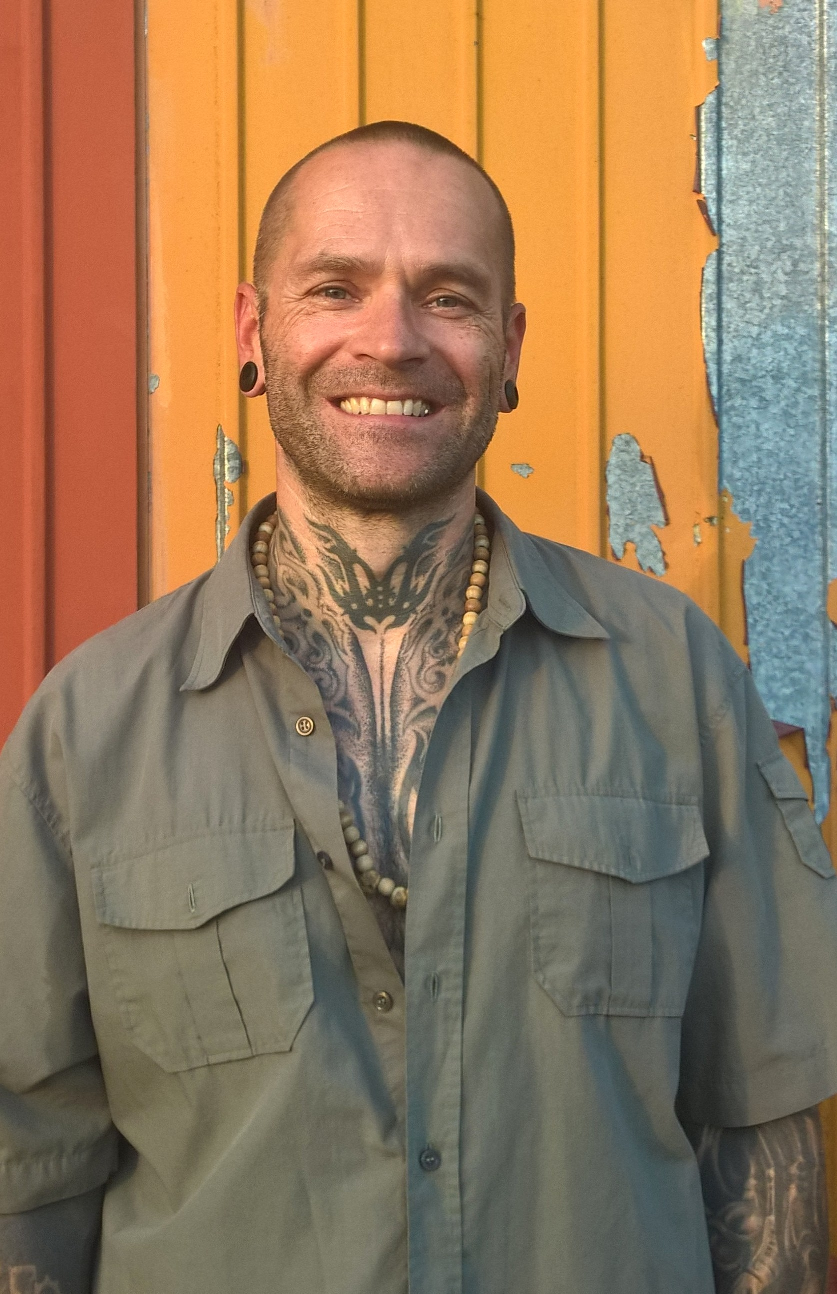 Didi Bruckmayr (2016)